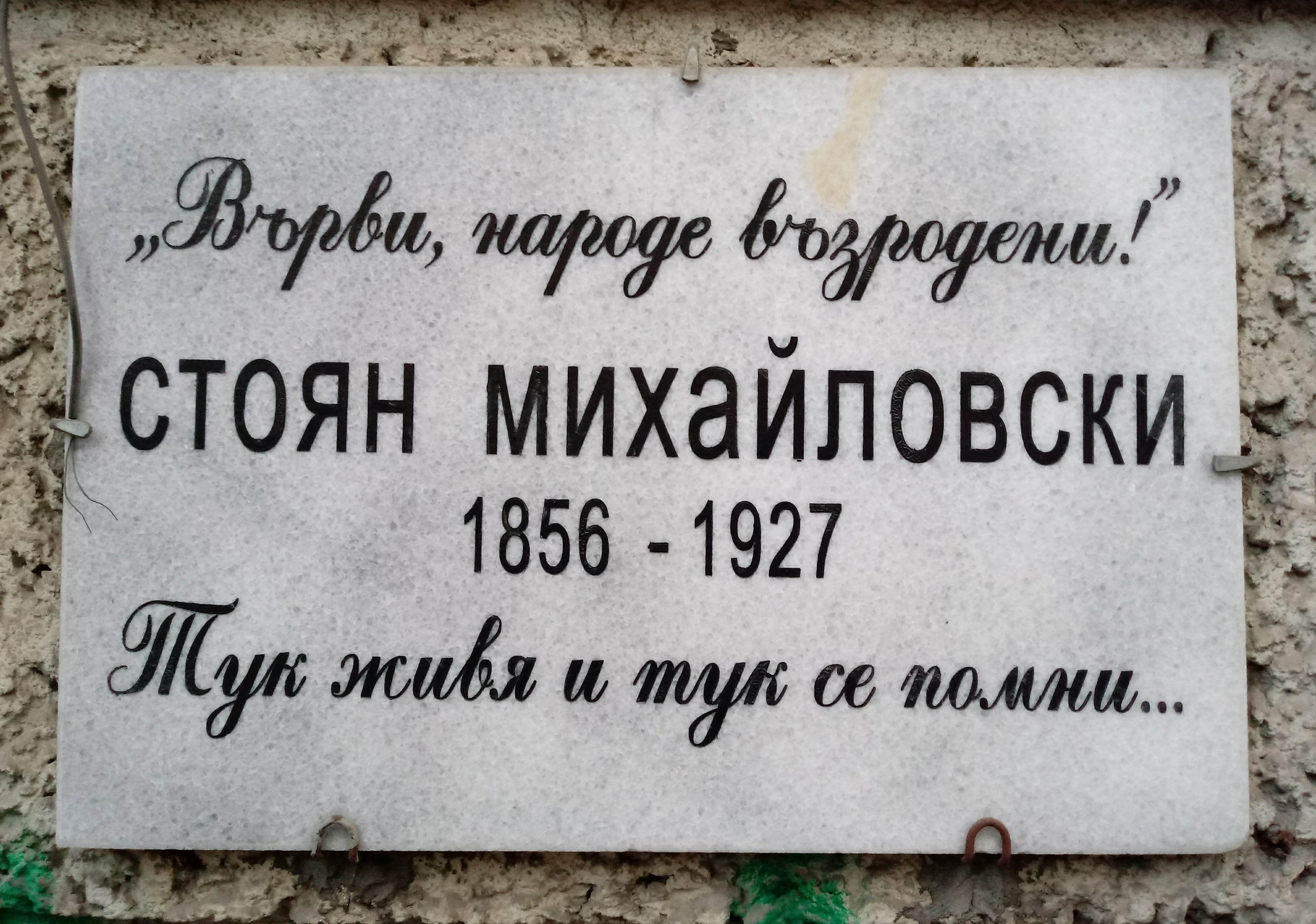 Stoyan Mihaylovski memorial plaque, 38 Parchevich Str., Sofia